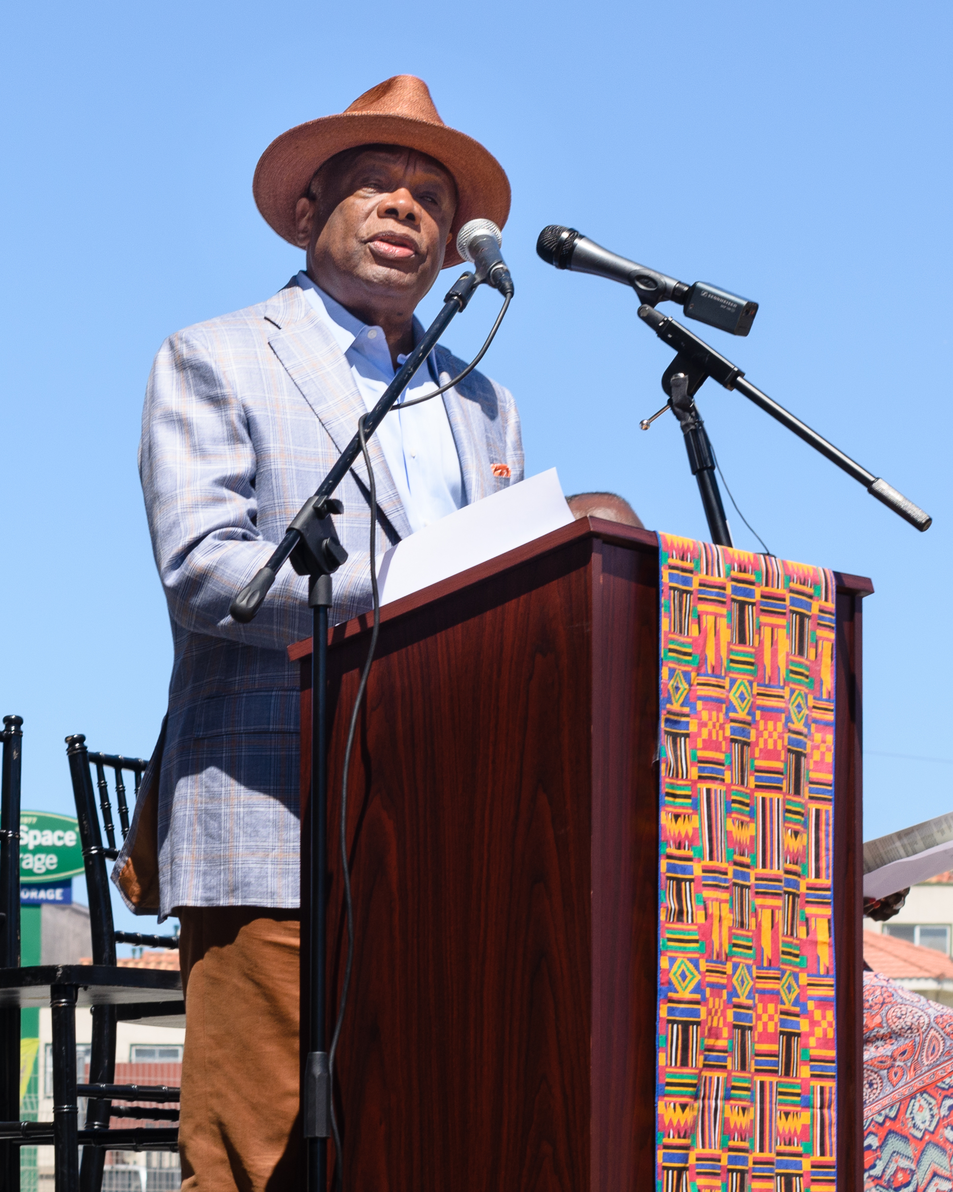 Former San Francisco Mayor Willie Brown speaking at the Dr George W Davis Senior Center ribbon cutting